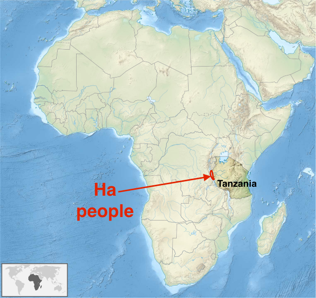 Approximate geographic distribution of Ha ethnic group in Tanzania A derivative work on Tanzania in Africa (relief).svg